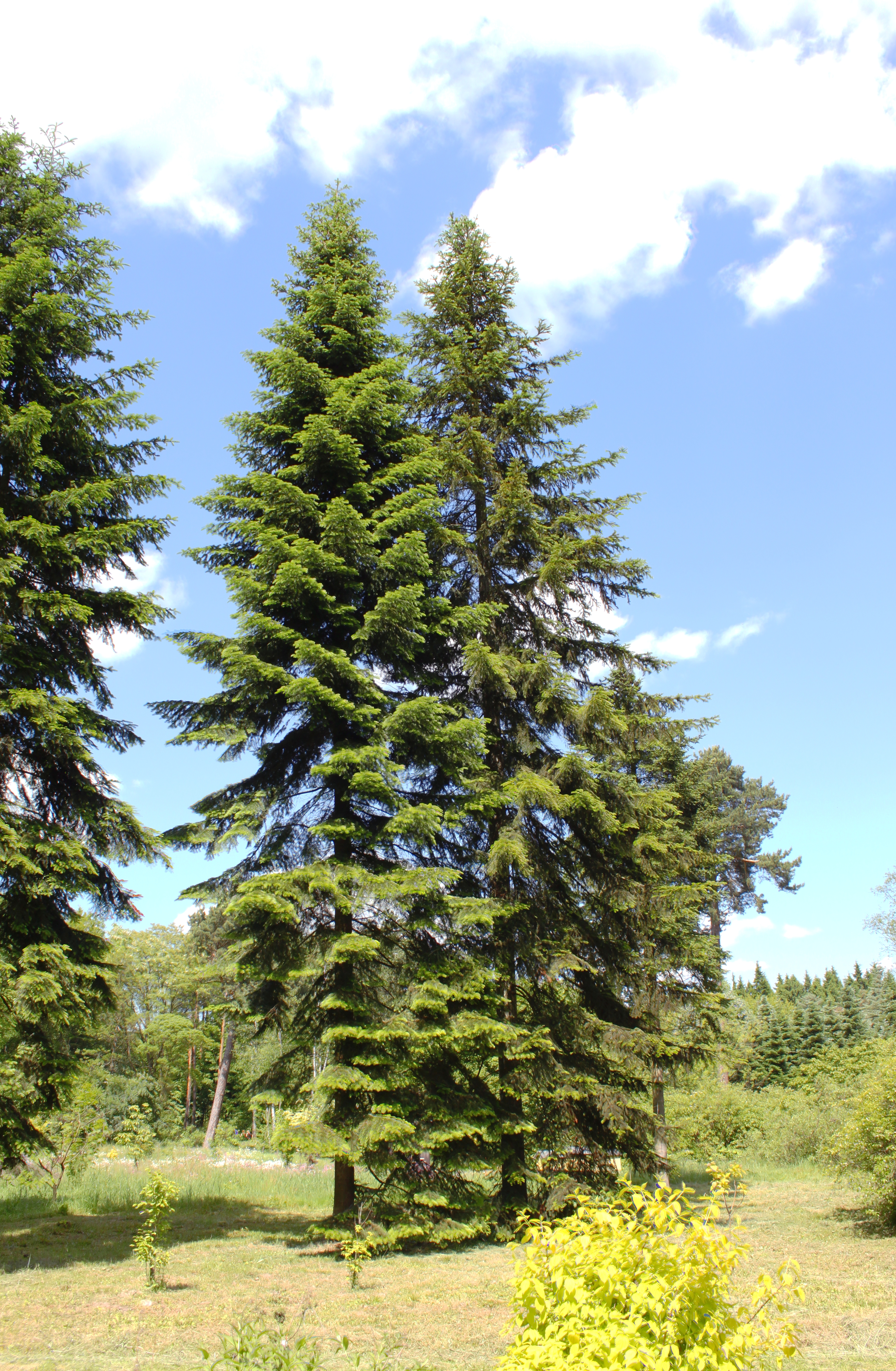 Abies sibirica in Rogów Arboretum, Poland